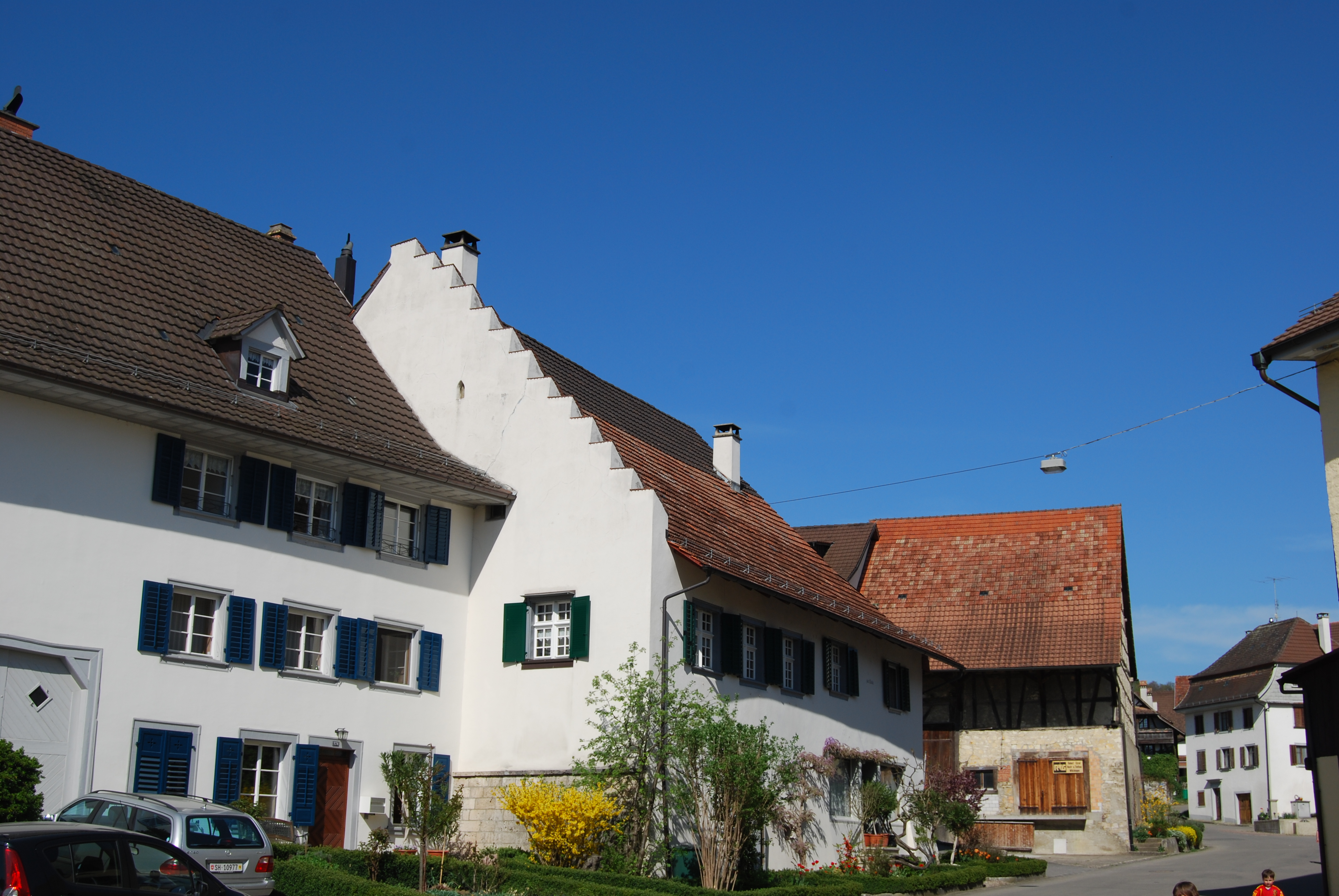 Wilchingen, canton of Schaffhausen, Switzerland